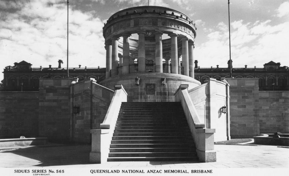 Anzac Memorial, Brisbane, ca. 1939 This view of the Anzac Memorial at Anzac Square in Brisbane includes the stairs, brickwork, columns, railing and lighting. There is a view of the Central Railway Station and clock tower in the the background.